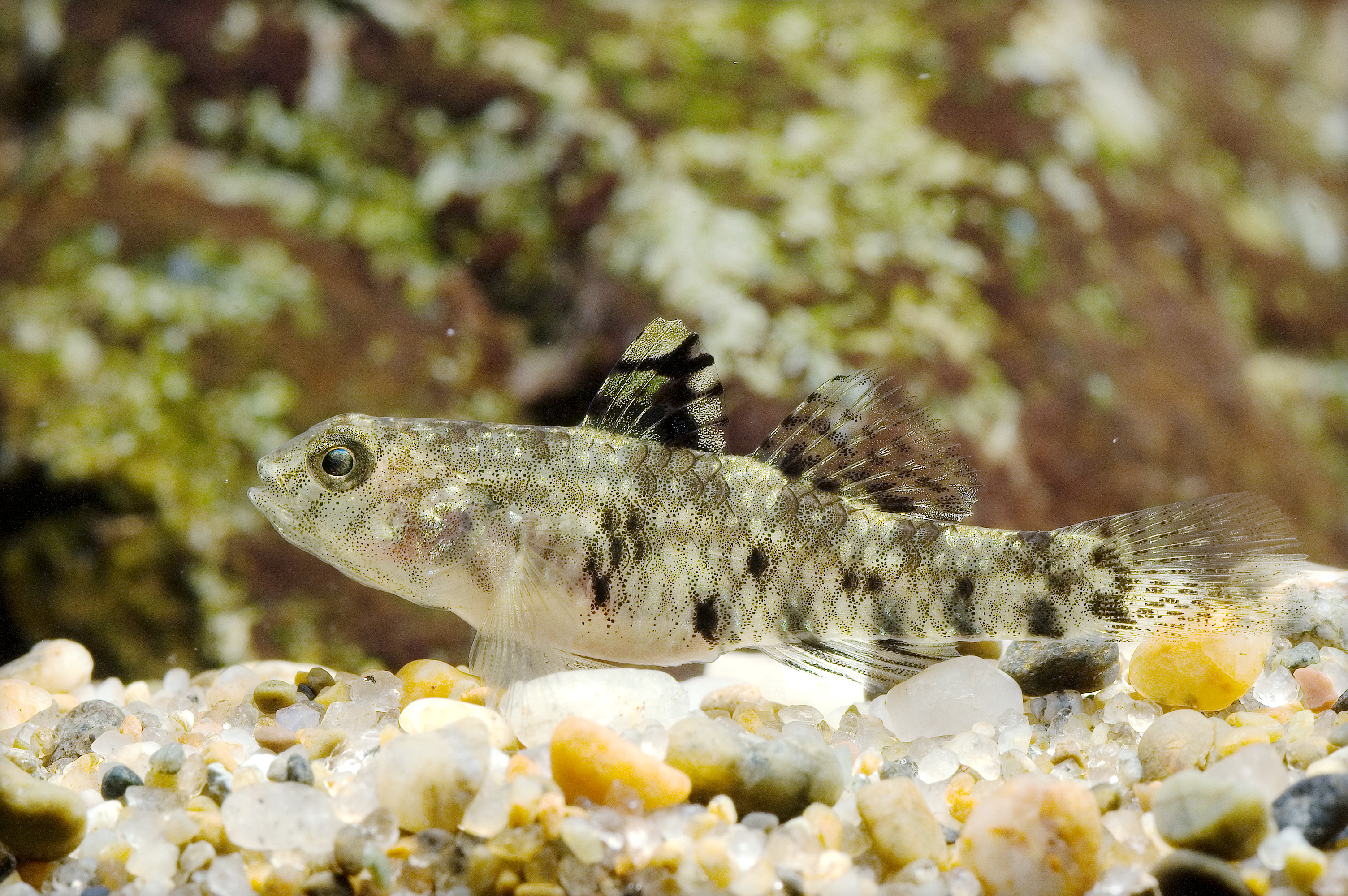 Hinahaze, Redigobius bikolanus, from Yaizu, Shizuoka, Japan.